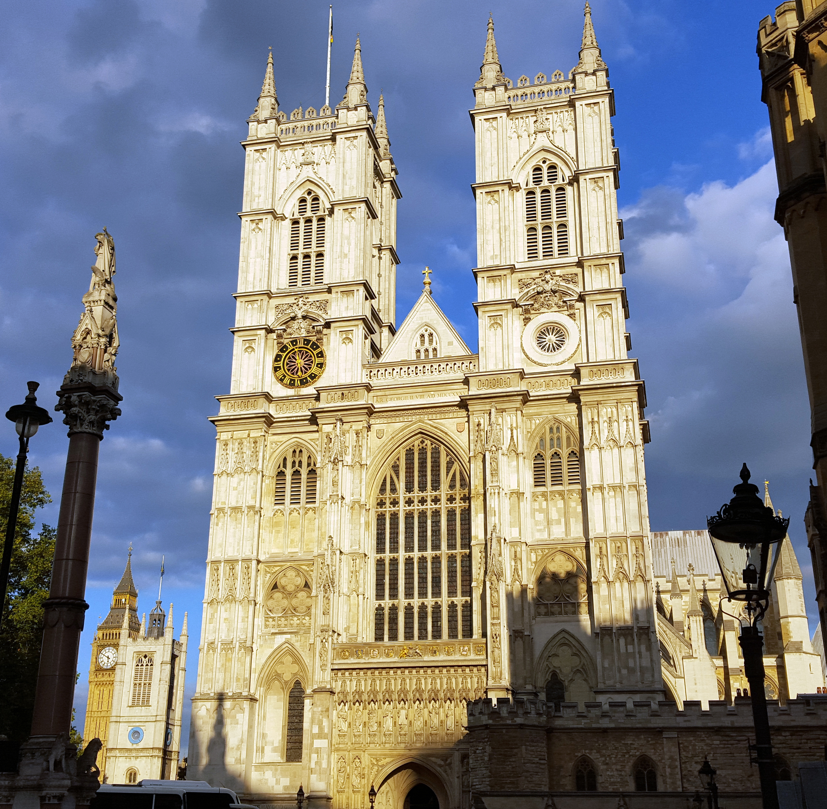 Westminster Abbey in London